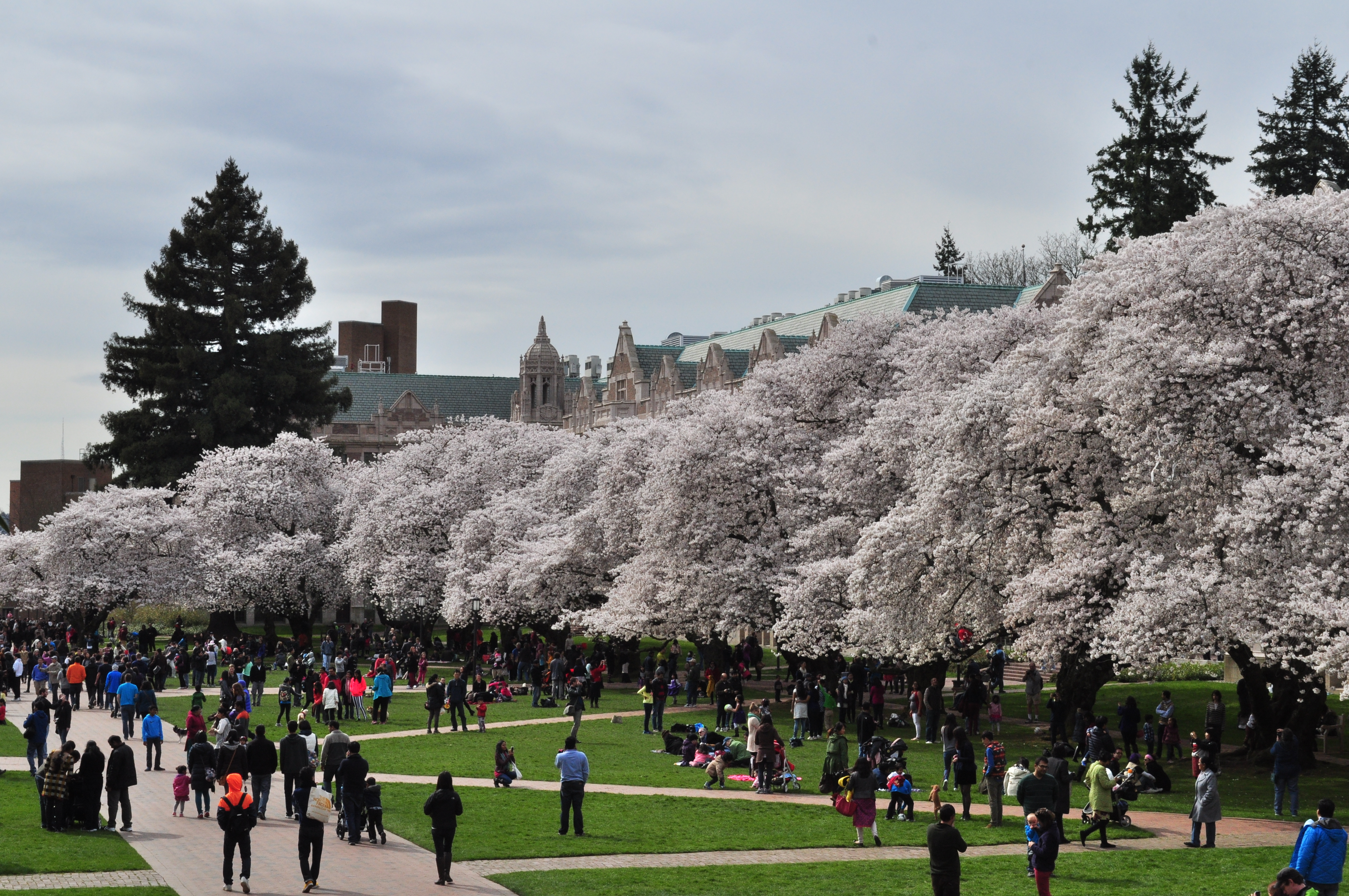 University of Washington (Seattle, Washington): the Quad on a Saturday at Cherry Blossom time.